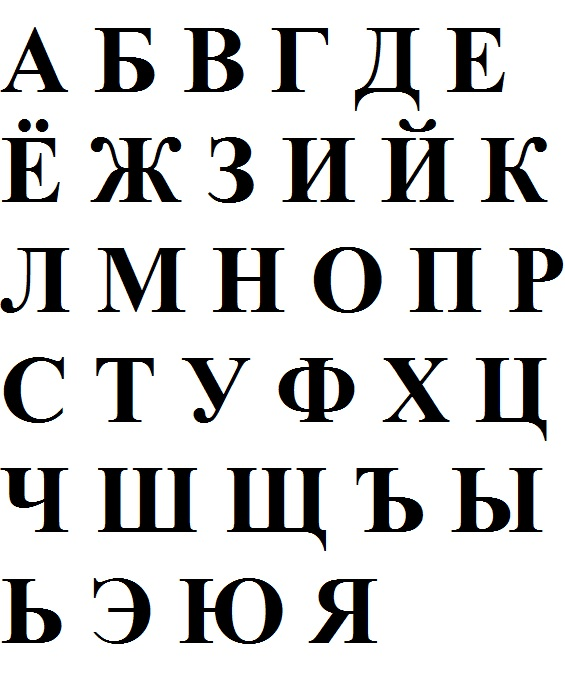 Russian alphabet